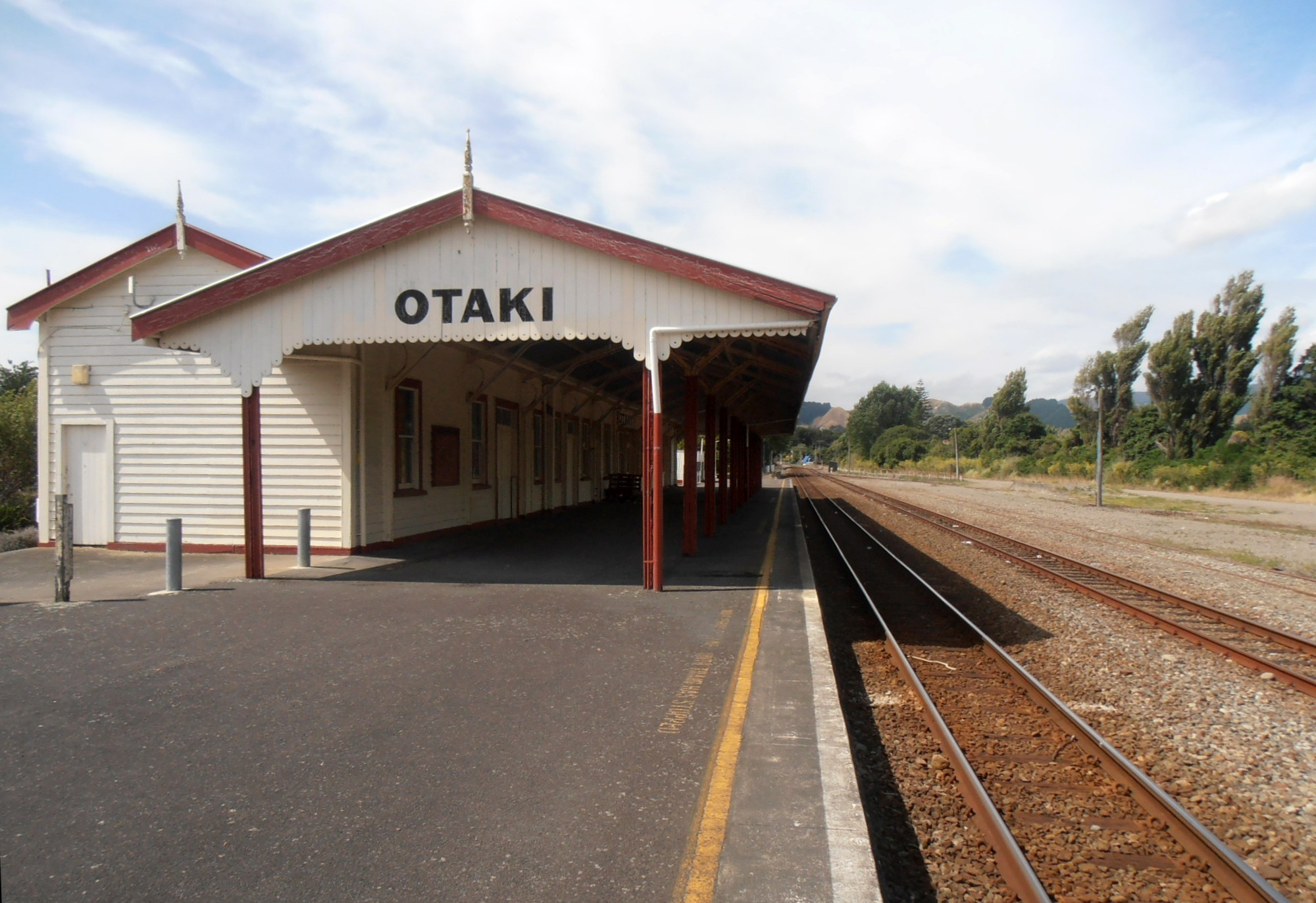 Otaki railway station, from South